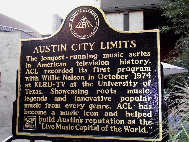 Austin City Limits sign at ACL Live - Moody Theater in Austin, TX. Photo by Ron Baker.